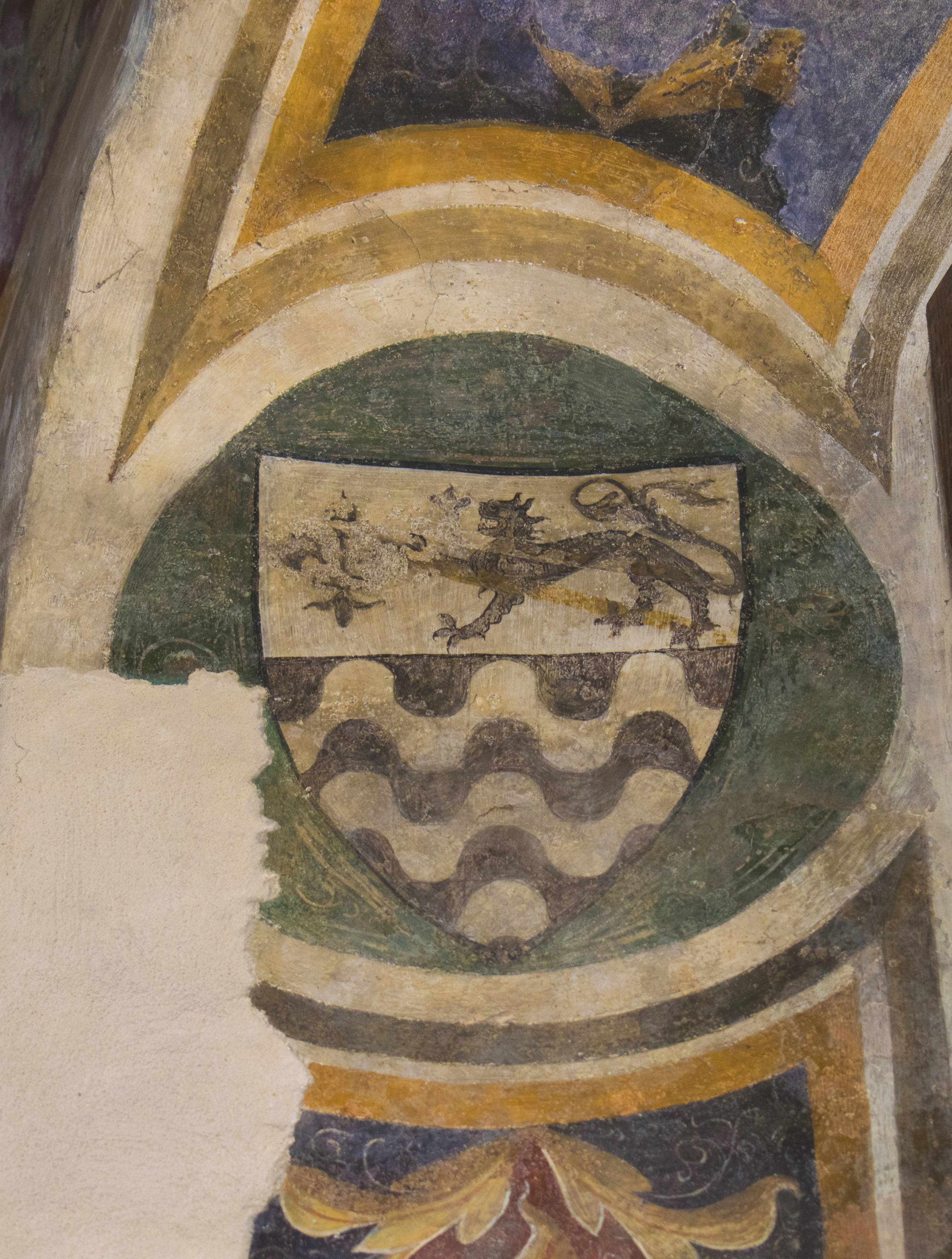 Stemma dei Manassei (affresco del XIV secolo, chiesa di San Salvatore, Terni).